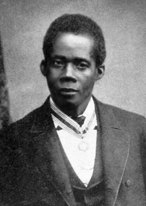 Edward Wilmot Blyden (1832−1912) — an educator, writer, journalist, politician, diplomat, and ambassador − primarily in Liberia. The father of Pan-Africanism, he was born in the Danish West Indies to Free Black parents. Blyden was refused admission to three theological seminaries in the Northern U.S. because of his race, so in 1850 he moved to Liberia, making his career and life there.